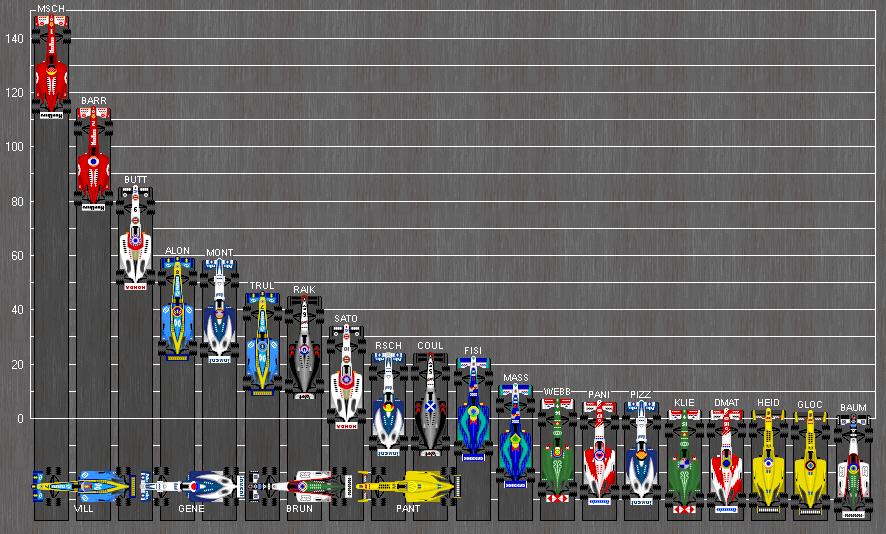 chart of final standings of 2004 Formula One season